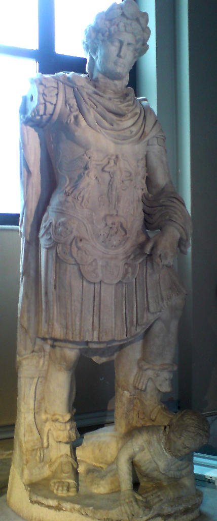 Istanbul Archaeological Museum, room 6 - Marble statue of emperor Hadrian (117-138 CE), depicted as a terrible conqueror tramping over a defeated enemy, found at Crete.